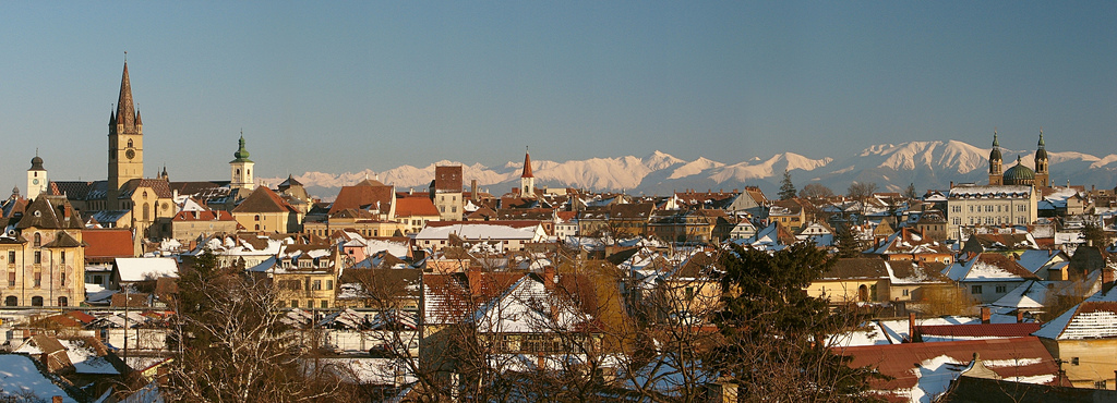 Panoramic view of the medieval city of Sibiu, Romania